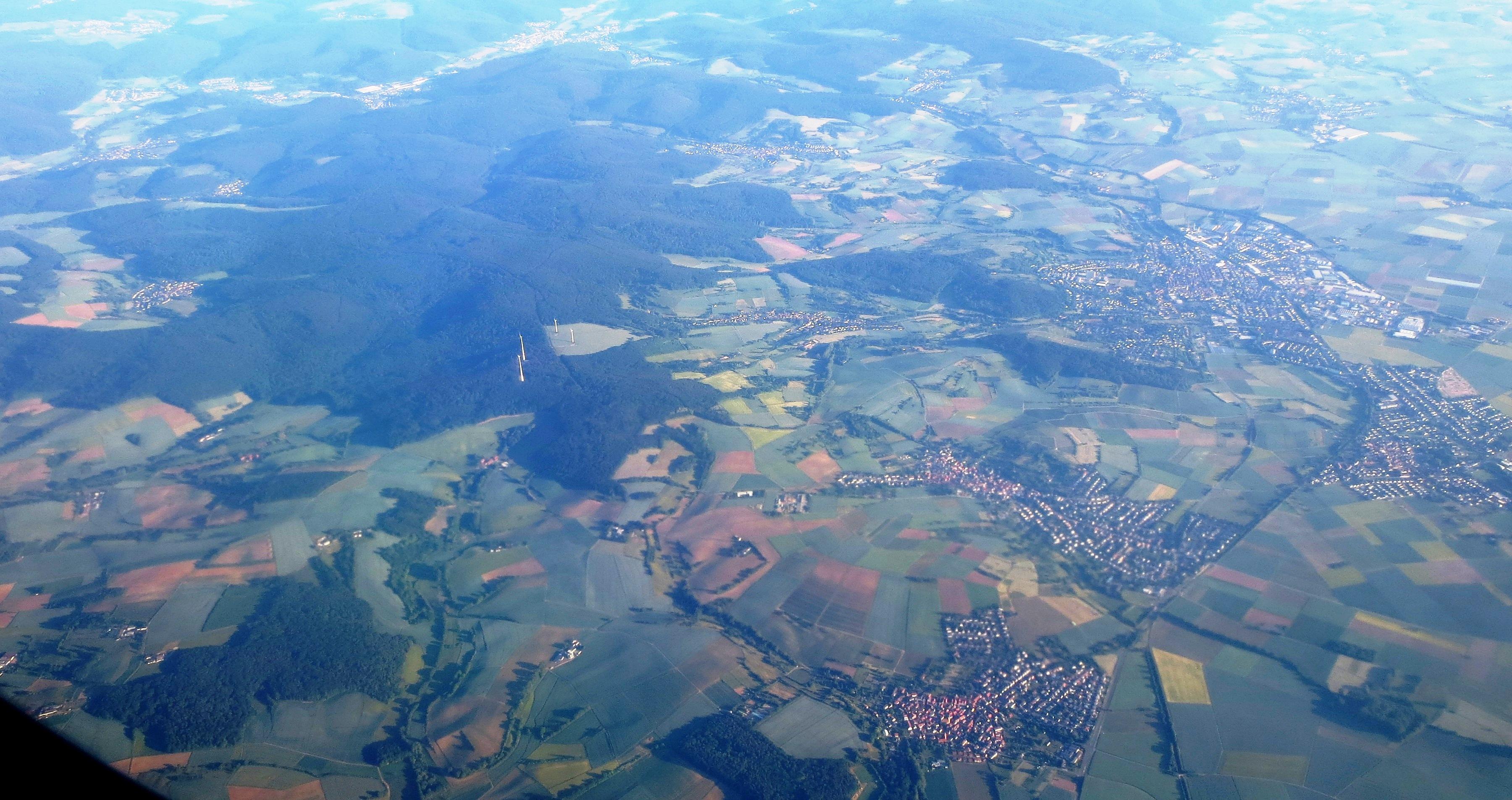 Aerial view from the north towards the south, of the city Gross-Umstadt in Hessen, Germany